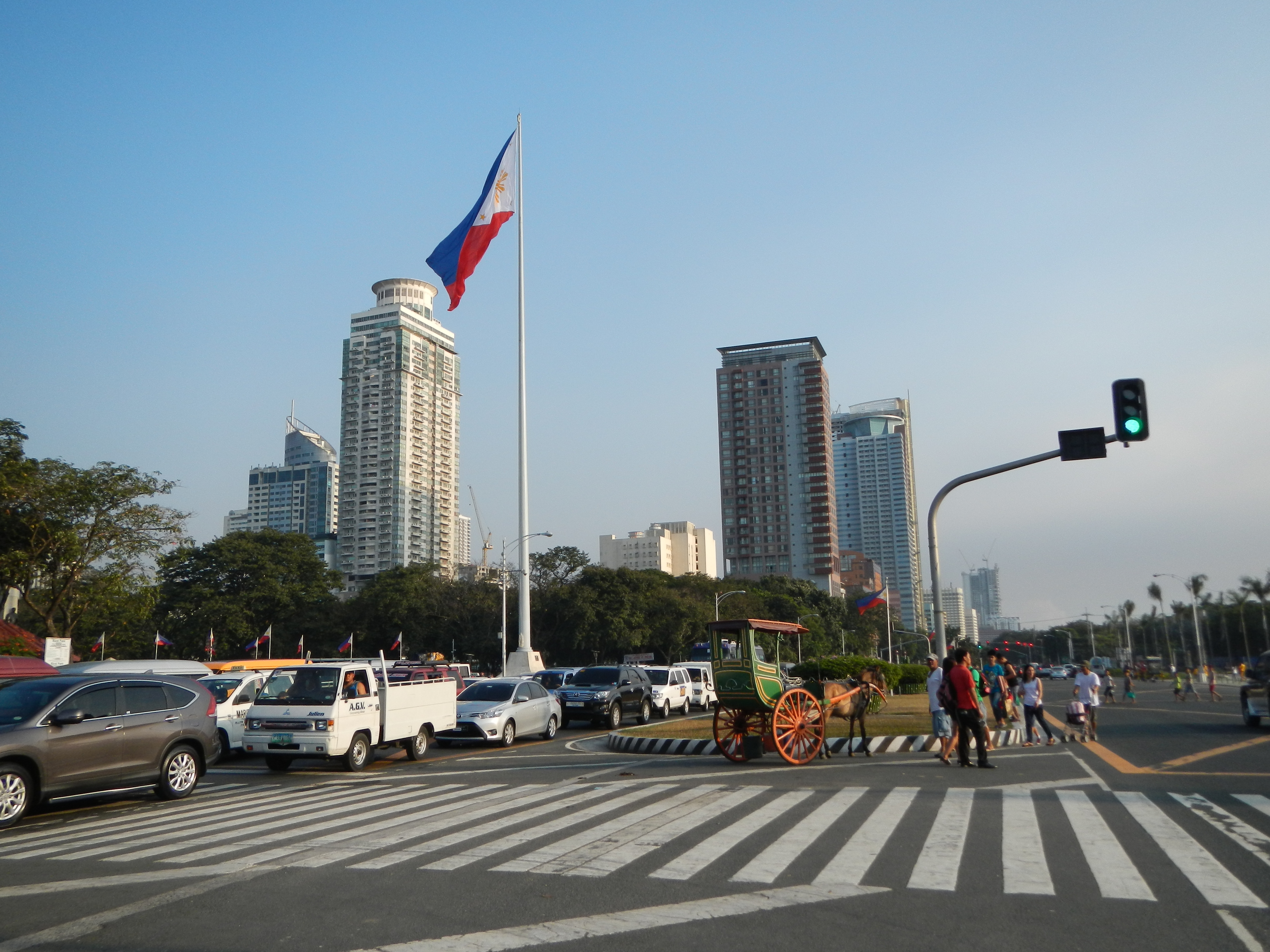 Upload Wizard photos of -- (general description of landmarks, town, church) - Rizal Park [1] Yellow flowers in the Philippines along the Park, and along beautiful heritage - Rizal Monument[2] - the Centennial Clock Tower Memorial of Freemasonry Grand Lodge and the Flag of the Philippines[3].